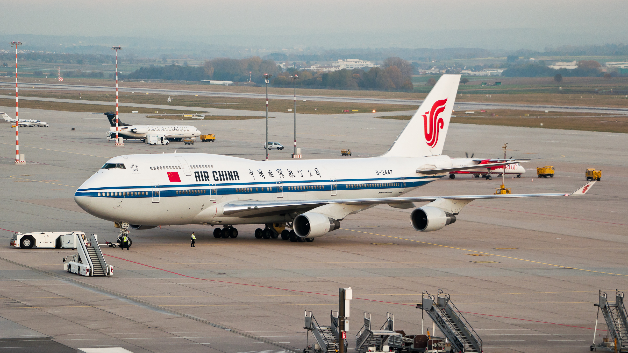 Air China Boeing 747-4J6, Registration:B-2447 - Stuttgart Airport (EDDS/STR)